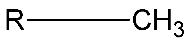 Comments High-resolution black/white .PNG made with ChemSketch and Photoshop — see WikiProject Chemistry - structure drawing for detailed instructions. Please drop me a note if you need the source file. Category:Chemical structures (Original text: Chemical structure of Methyl)